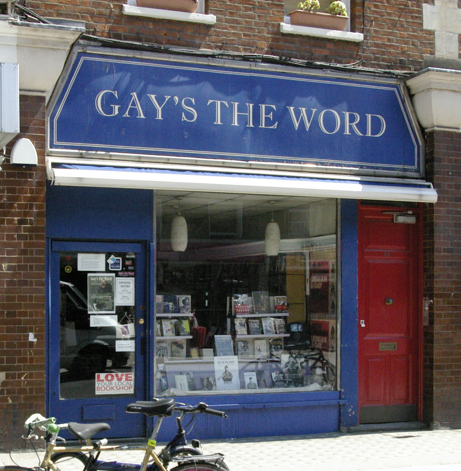 Gay's the Word bookshop, Marchmont Street, London